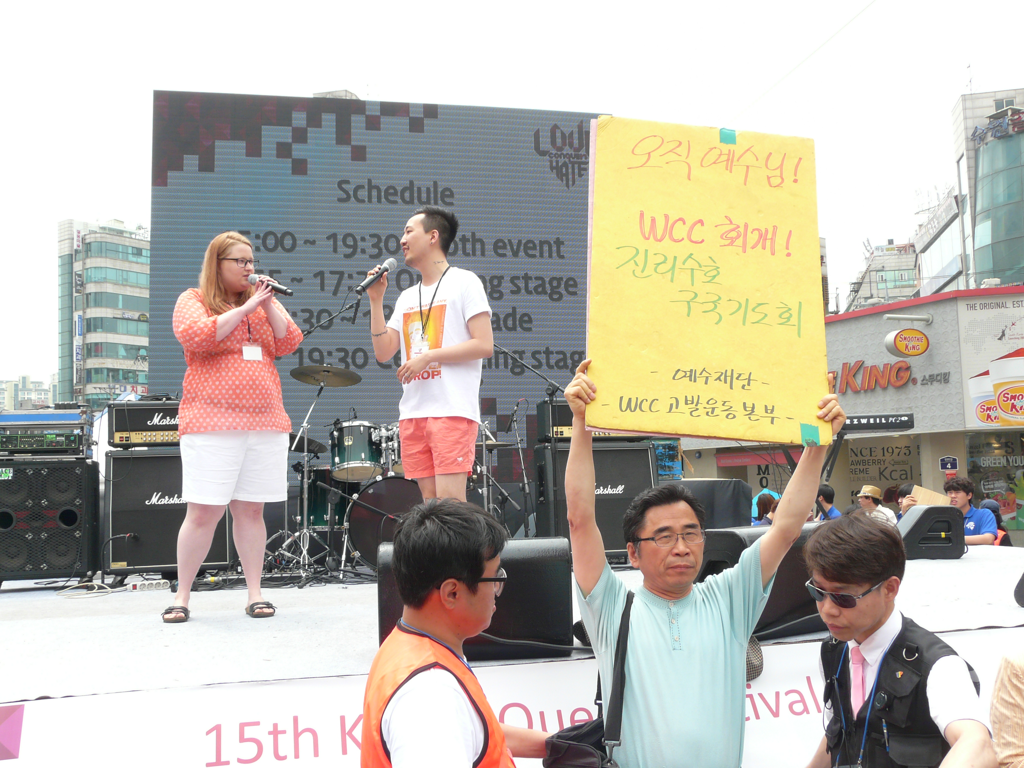 Korea Queer Culture Festival 2014, before the parade. Numerous conservative, religious anti-LGBT activists were disrupting the events. Here, one is portrayed holding a placard in front of the stage trying to obscure the view of the performance behind him.